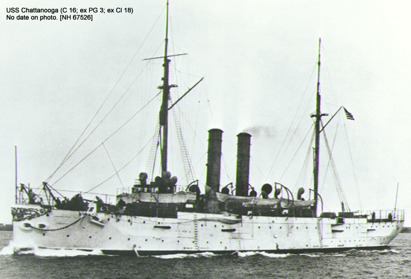 United States Navy NH67526